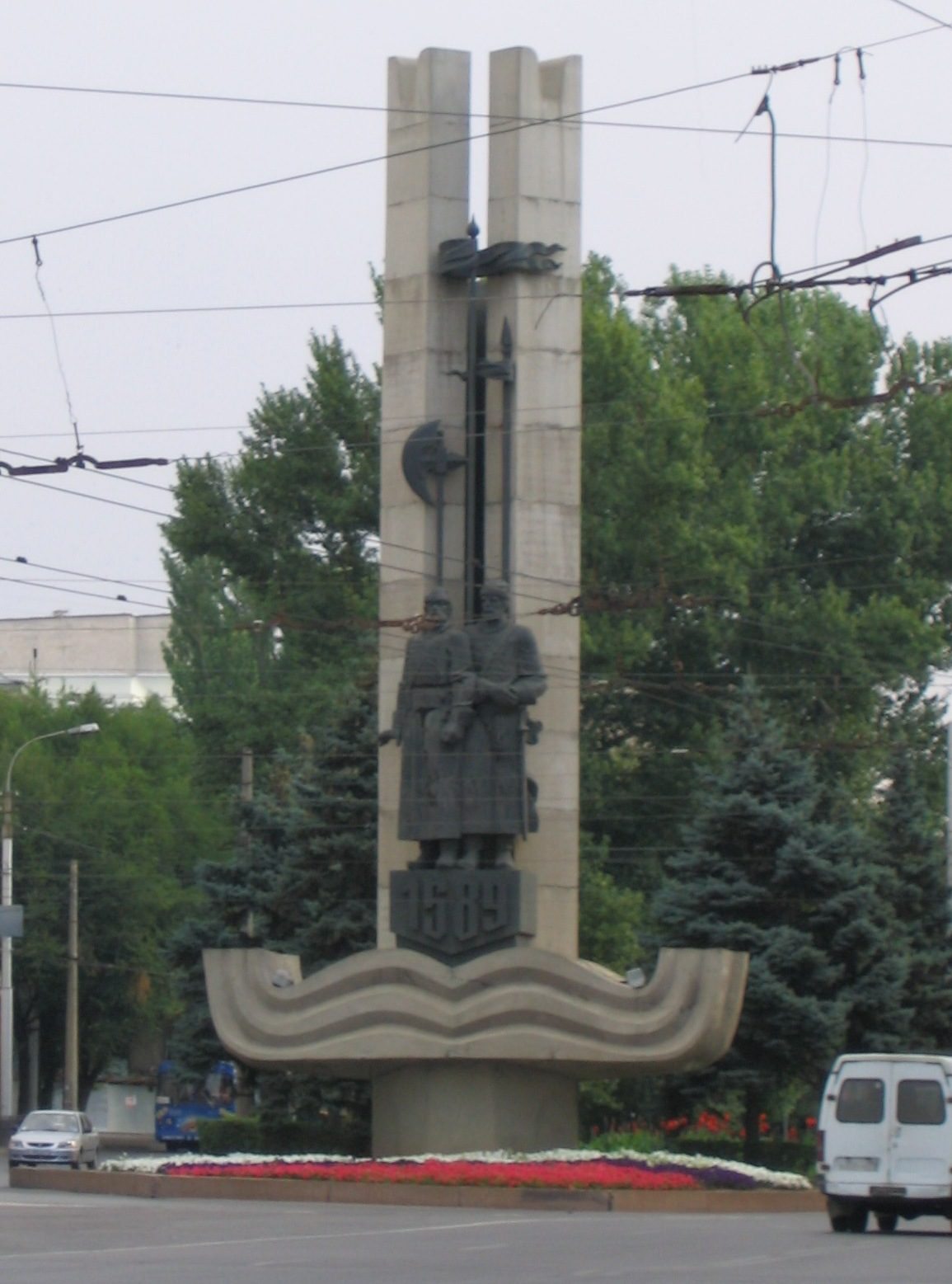 Monument to foundation of Volgograd